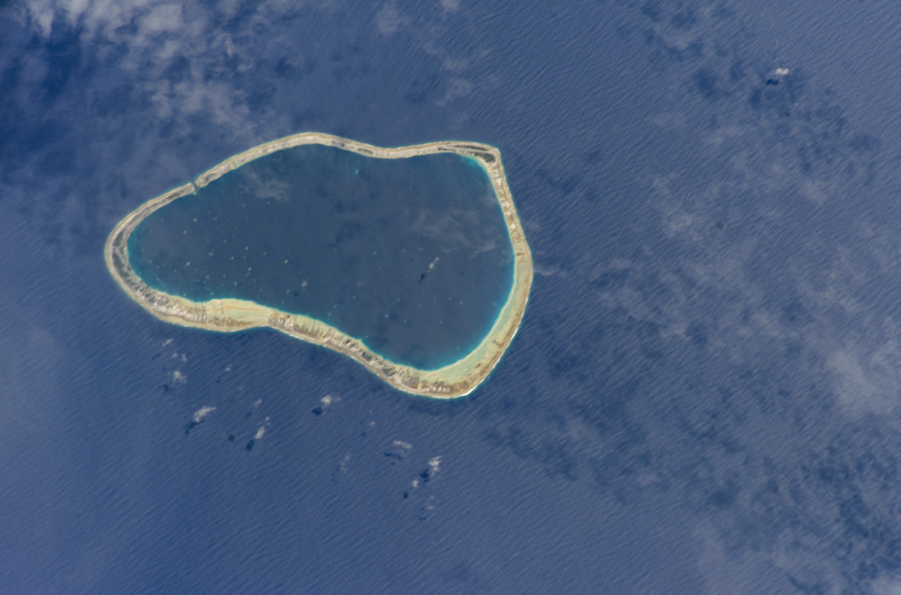 An image from the International Space Station of the Nengonengo Atoll in the Tuamotu Archipelago, French Polynesia.